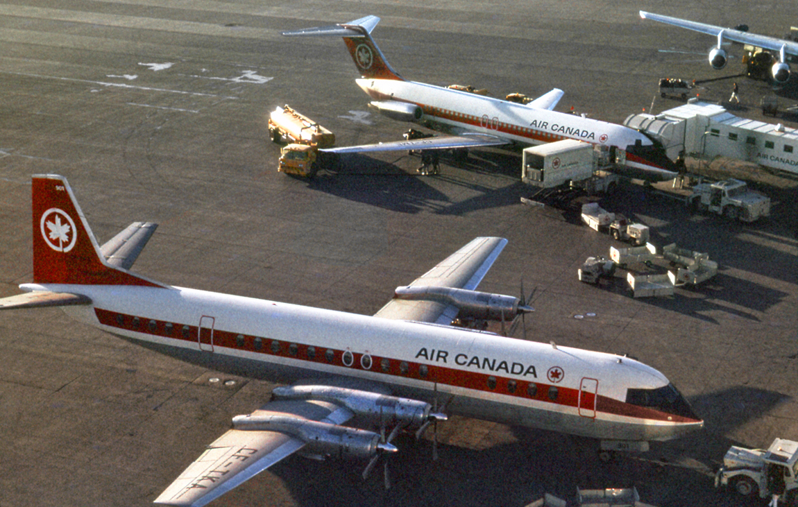 Vickers 952 Vanguard CF-TKA of Air Canada at Toronto Airport in 1971